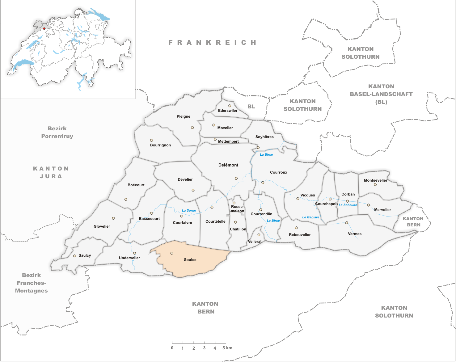 Municipality Soulce